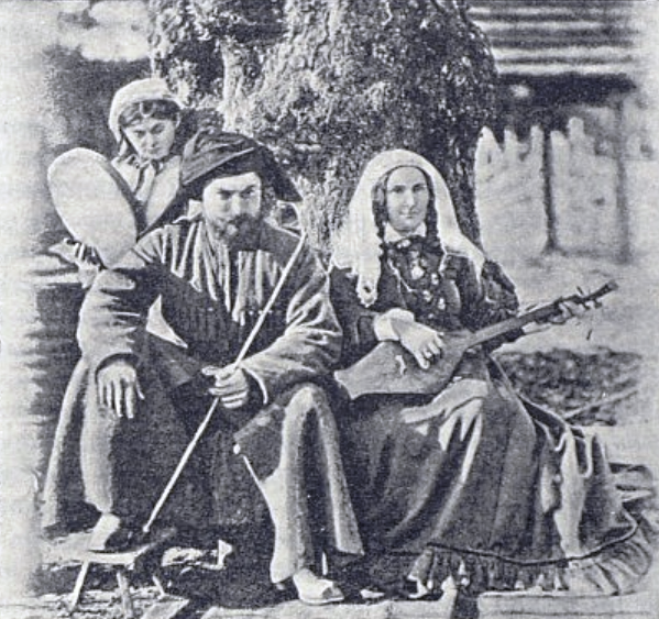 Georgian musicians